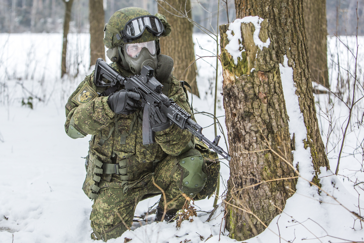 Курсанты 282-го учебного центра войск РХБ защиты отрабатывают навыки в боевой экипировке «Ратник» и в новейшем противогазе ПМК-4.